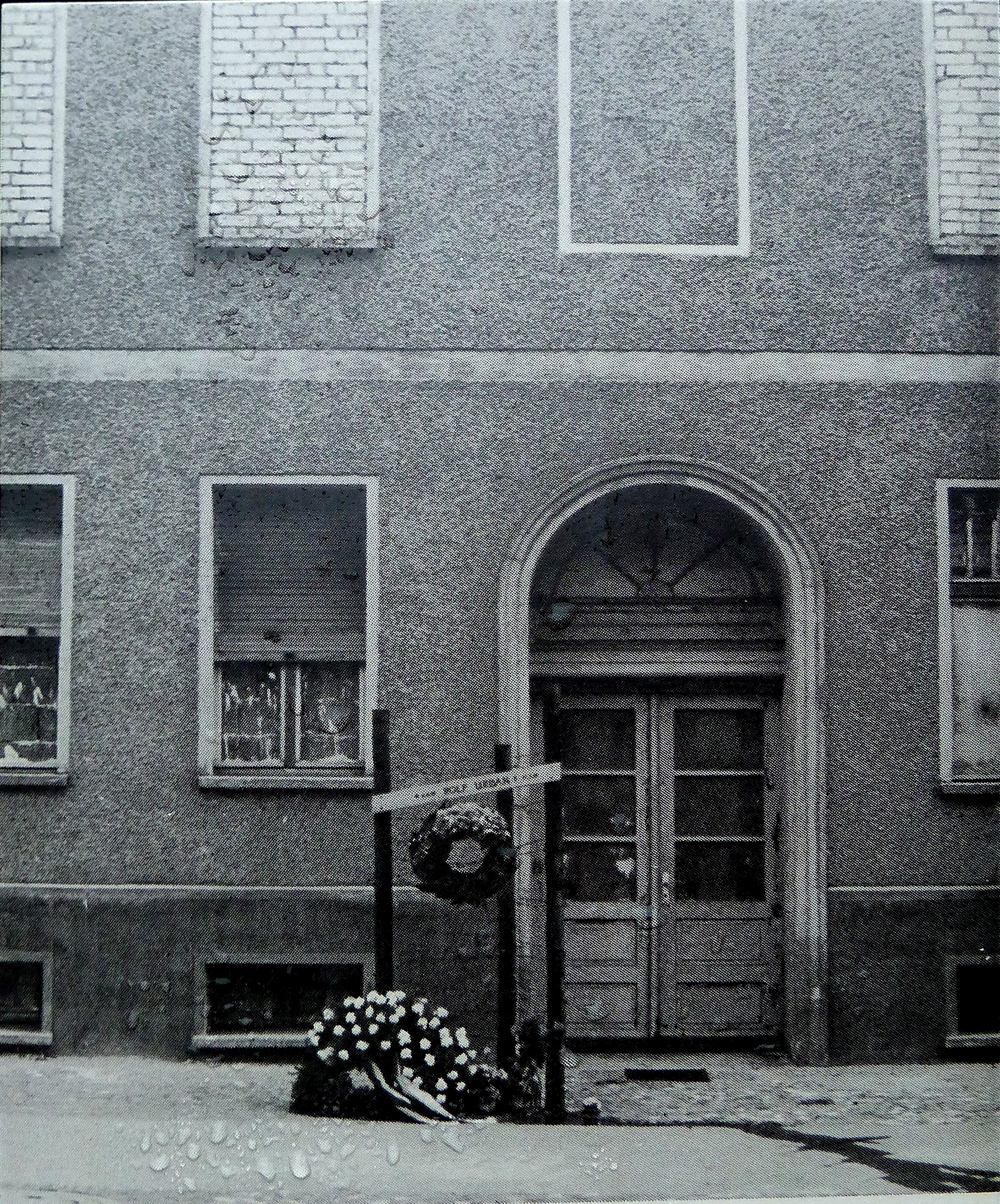 Photo from Rudolf Urban memorial at Bernauer Strasse 1, Berlin; this is how the house appeared in June 1962, 10 months after the Berlin Wall was established.